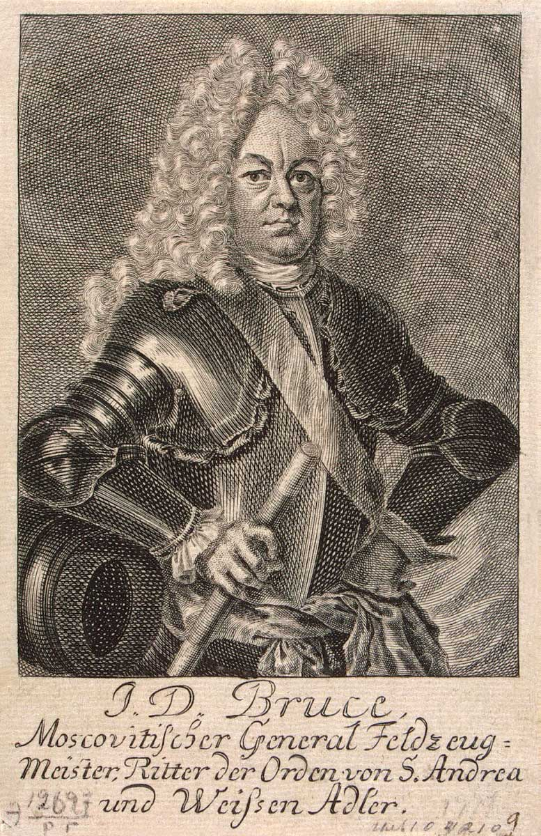 Russian Field-Marshal Jacob Bruce.